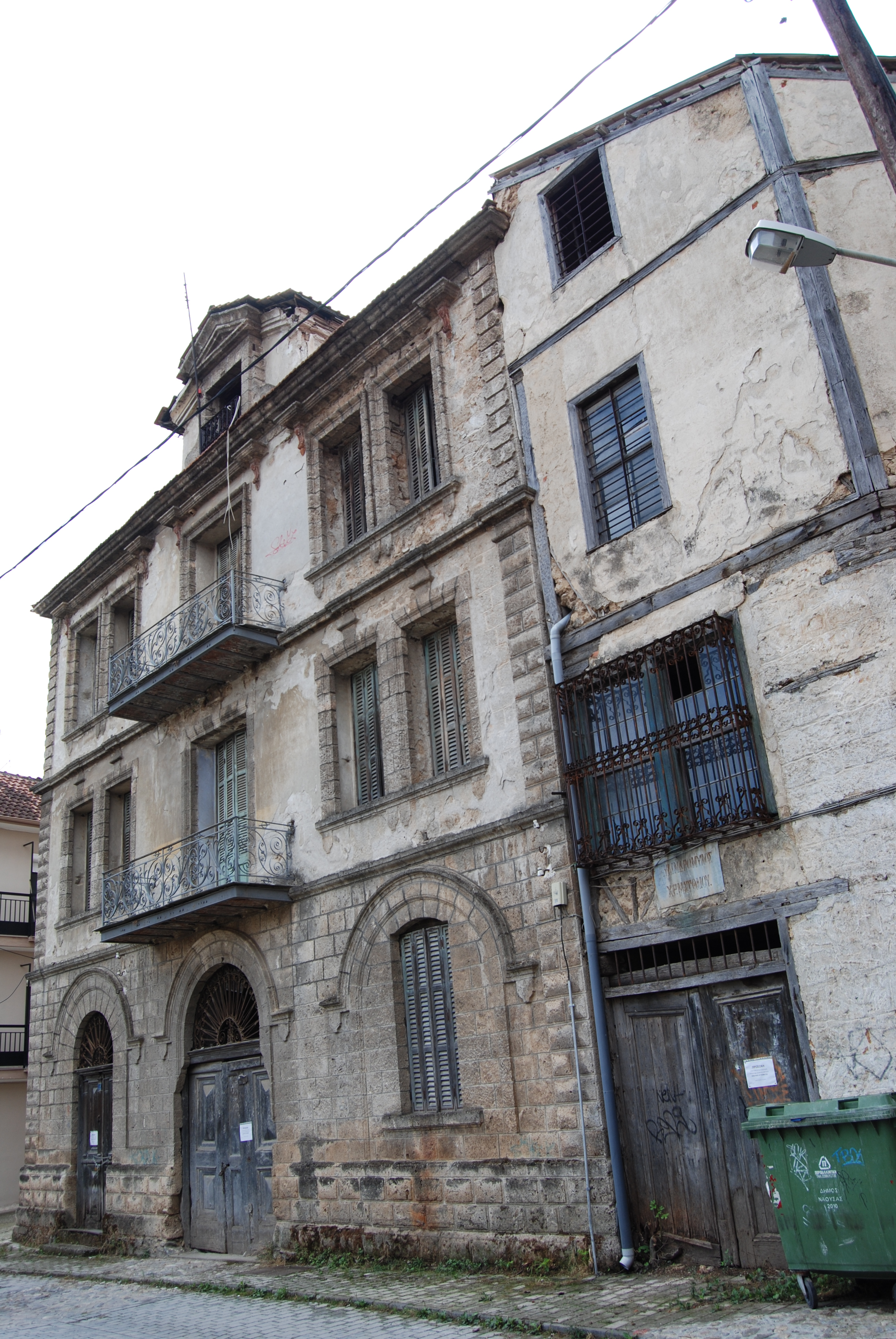 Buildings in Naousa